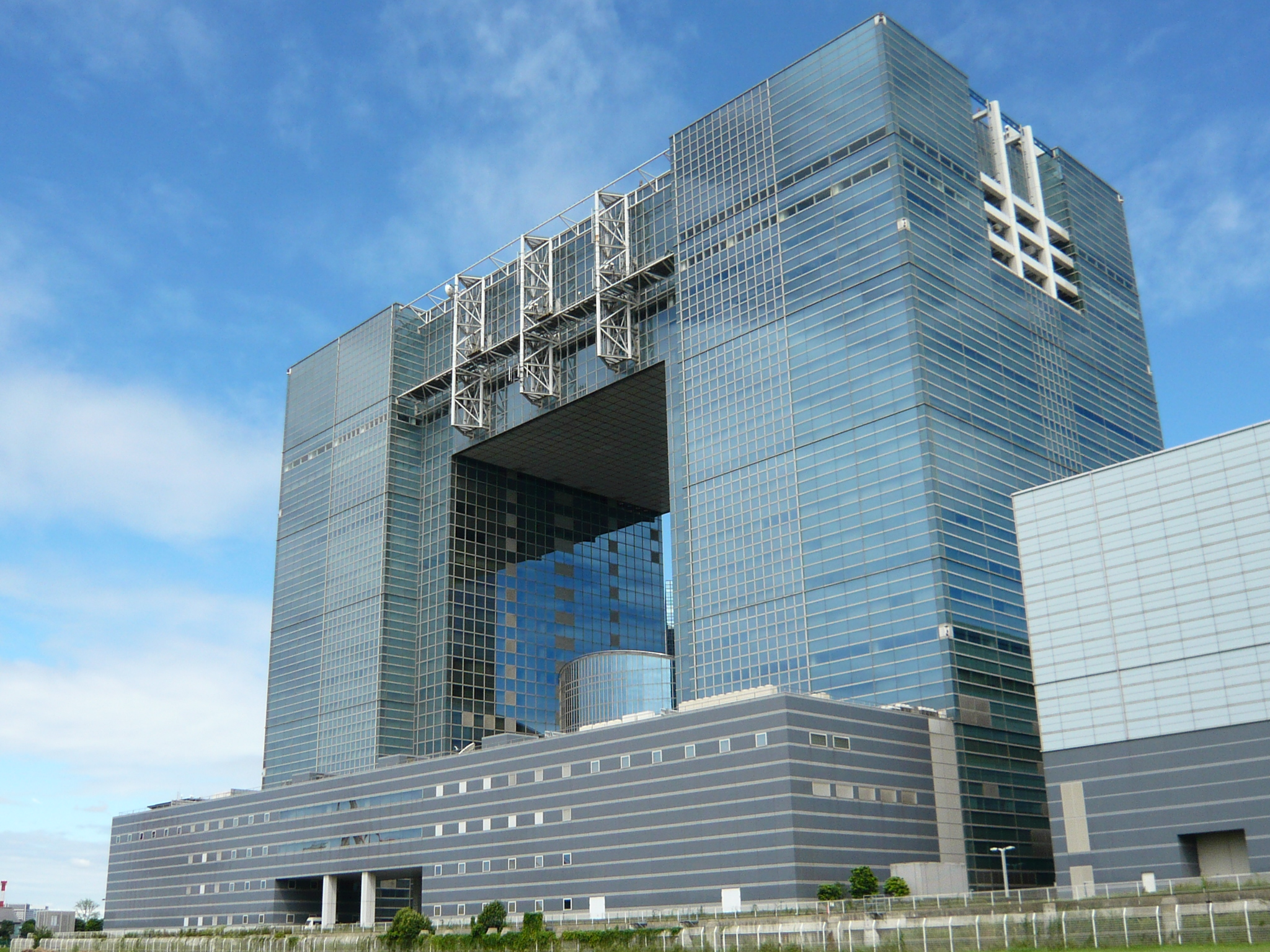 Tokyo Telecom Center Telecom Center(テレコムセンター) in odaiba,Tokyo,Japan.